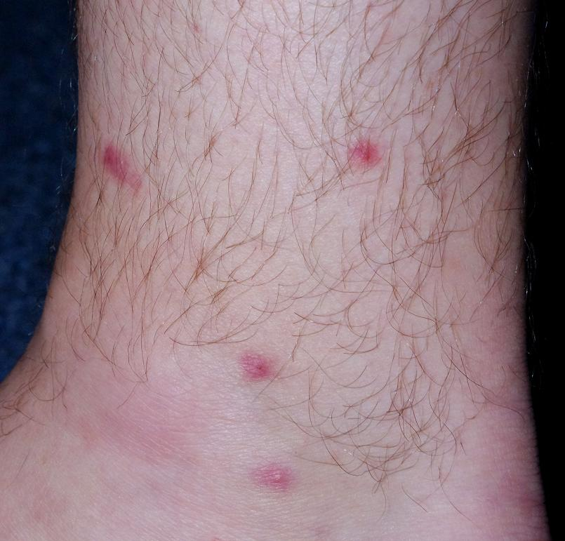 Cercarial dermatitis ("swimmer's itch") on a human shank and ankle, four days after infestation. The bloodshot, puriginous skin vesicles (diameter ~5 mm) are caused by a — in this case harmless — infection with parasitic larvae (cercaria) of distinct Trematode species (probably Trichobilharzia ocellata / Trichobilharzia sp.). The most itching period is between the 2nd and 4th day after infection.